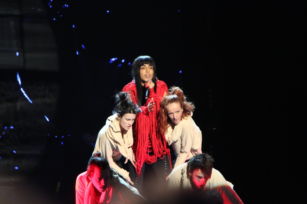 Loreen performs on Melodifestivalen 2011.